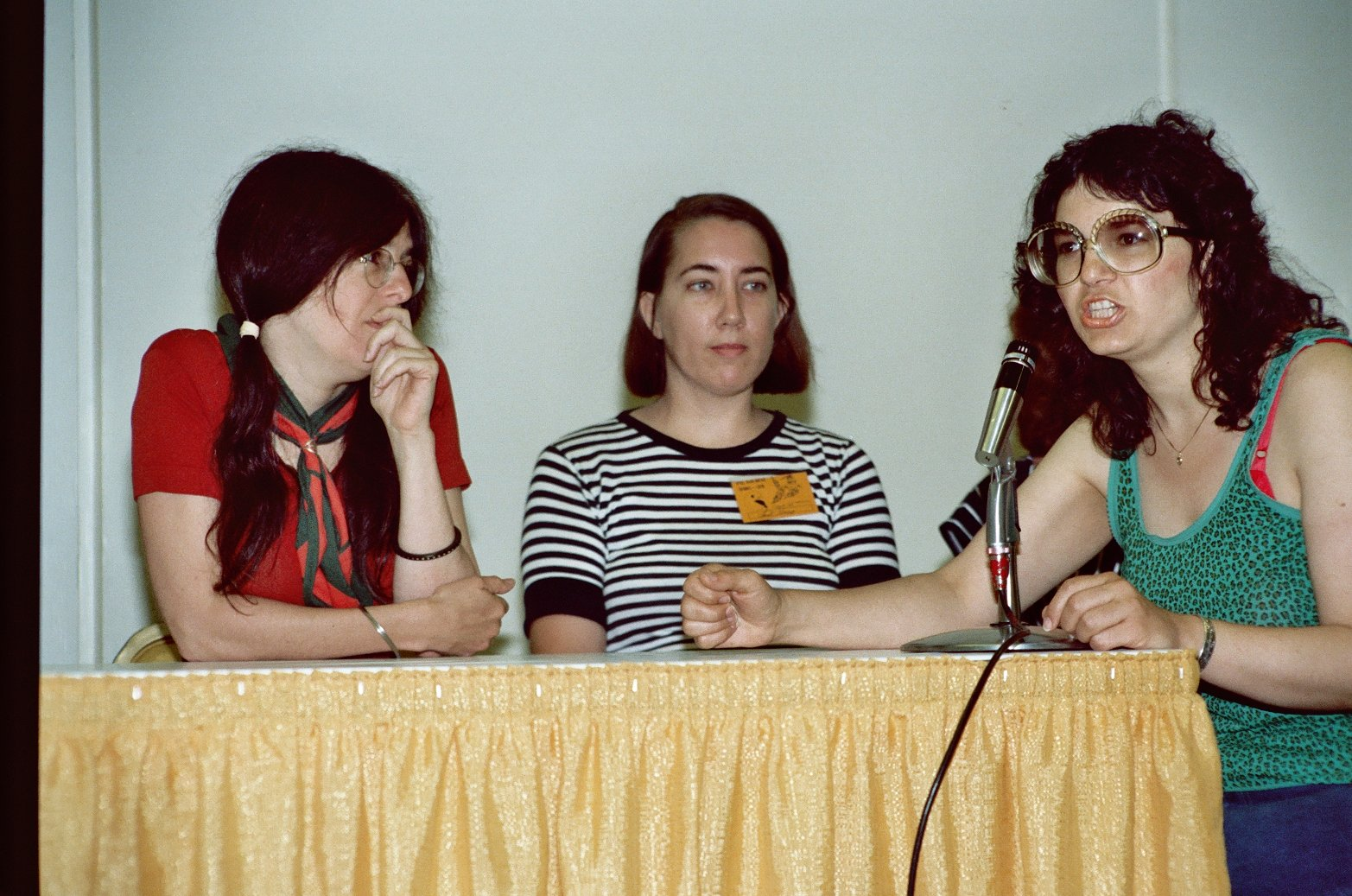 From left to right: Comics creators Catherine Yronwode, Carol Lay, and Melinda Gebbie at the Women In Comics panel at the 1982 San Diego Comic Con (today called Comic-Con International). NOTE: Permission granted to copy, publish, broadcast or post any of my photos, but please credit "photo by Alan Light" if you can. Thanks